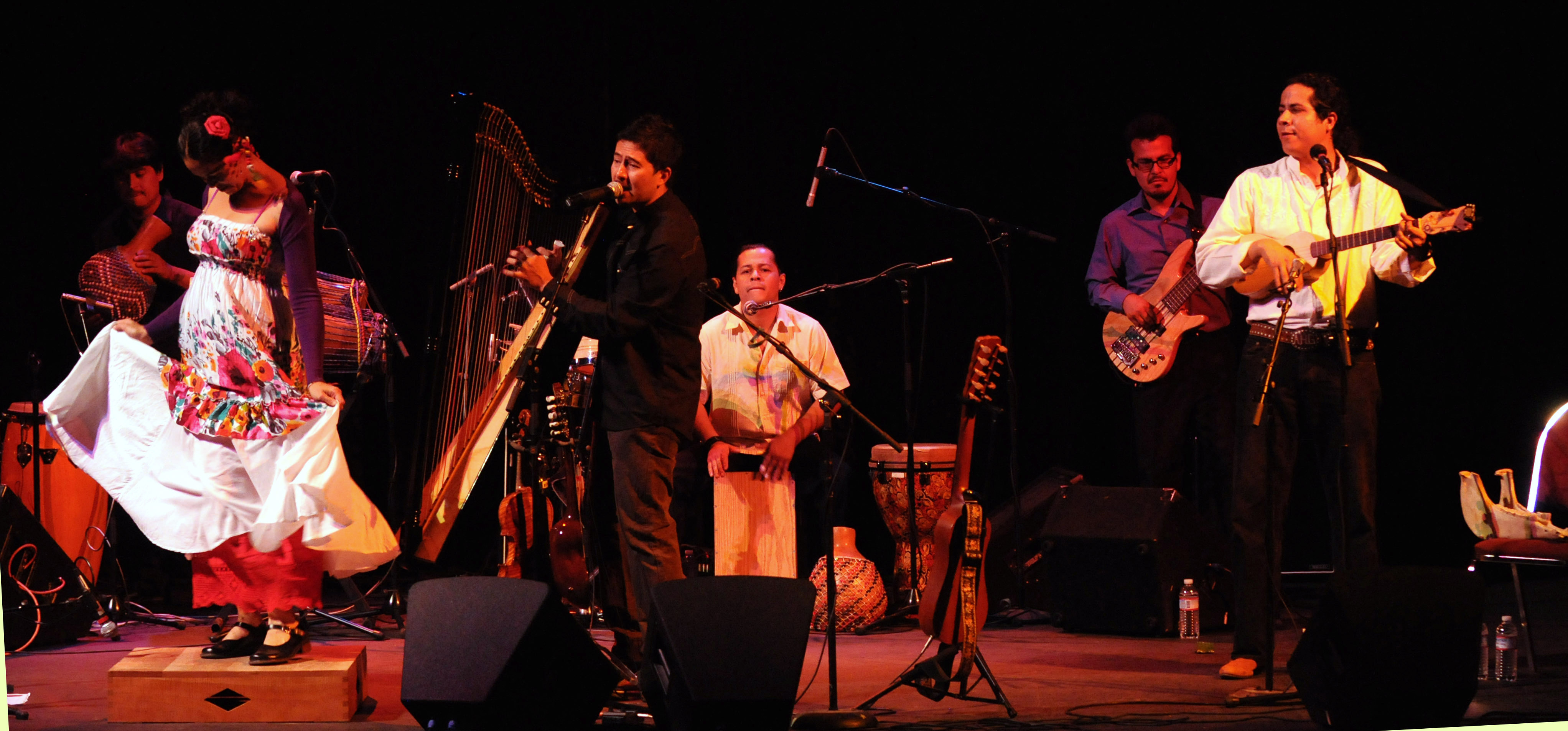 Photograph of Celso Duarte Sextet taken at the Capitol Theater, Olympia, Washington